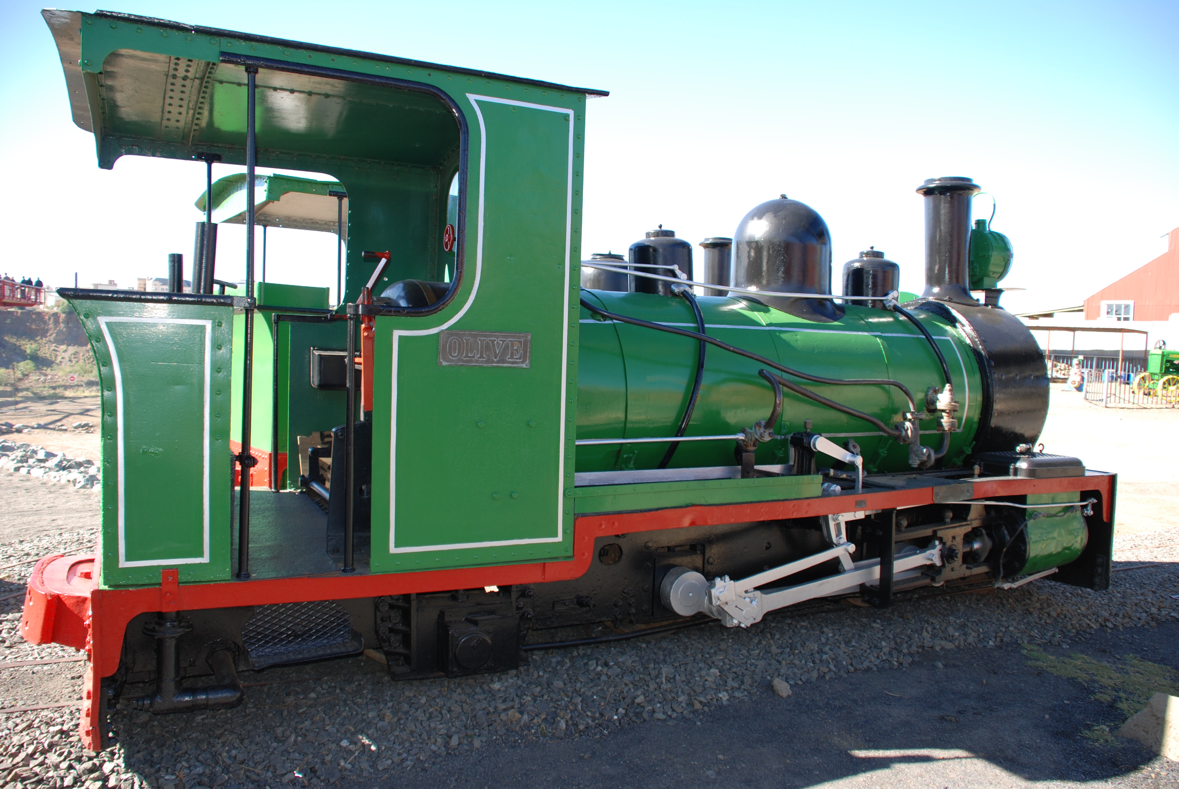 18 inch gauge locomotive "Olive" at the Kimberley Diamond Mine Museum